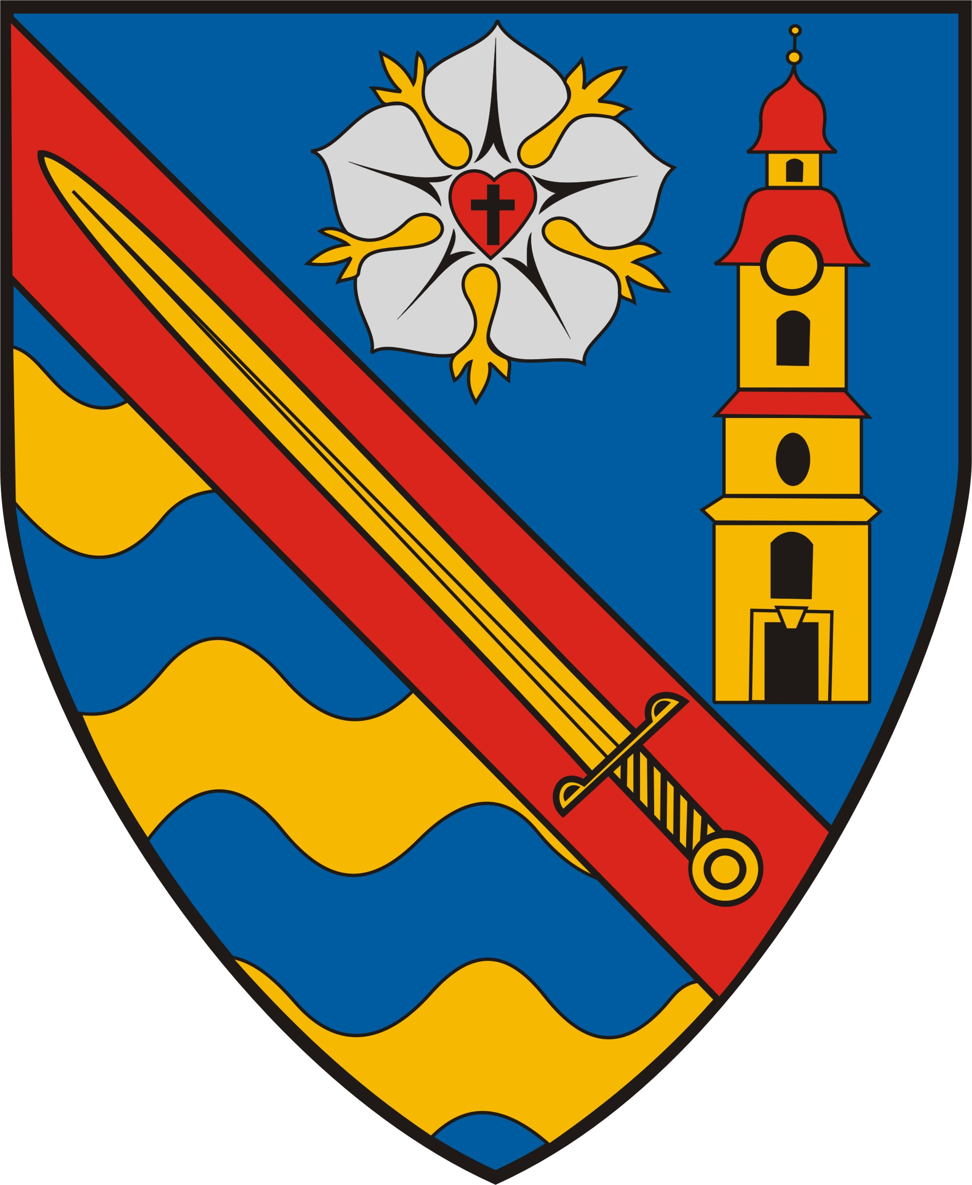 Coat of arms of Dunaegyháza, Hungary